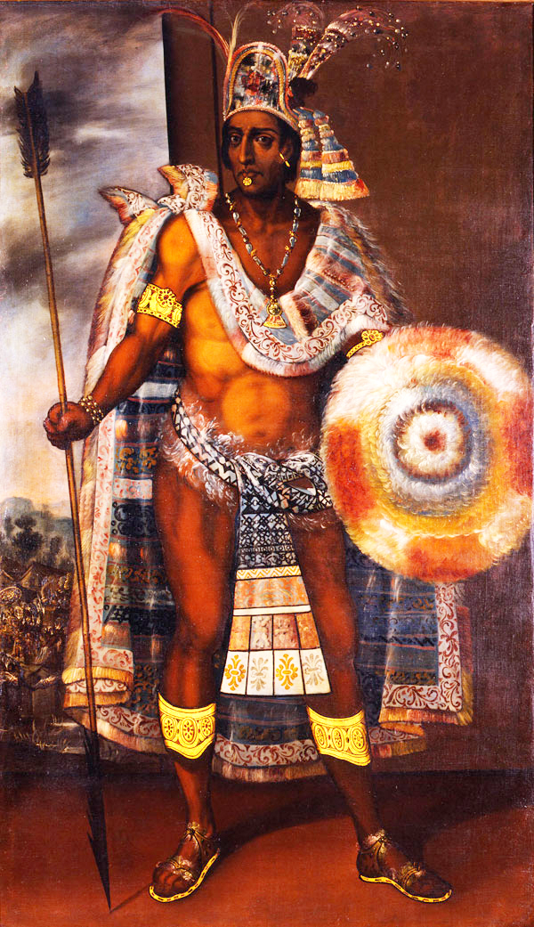 Portrait of Moctezuma II (1466-1520)